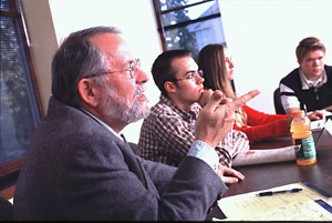 Gcline seminar